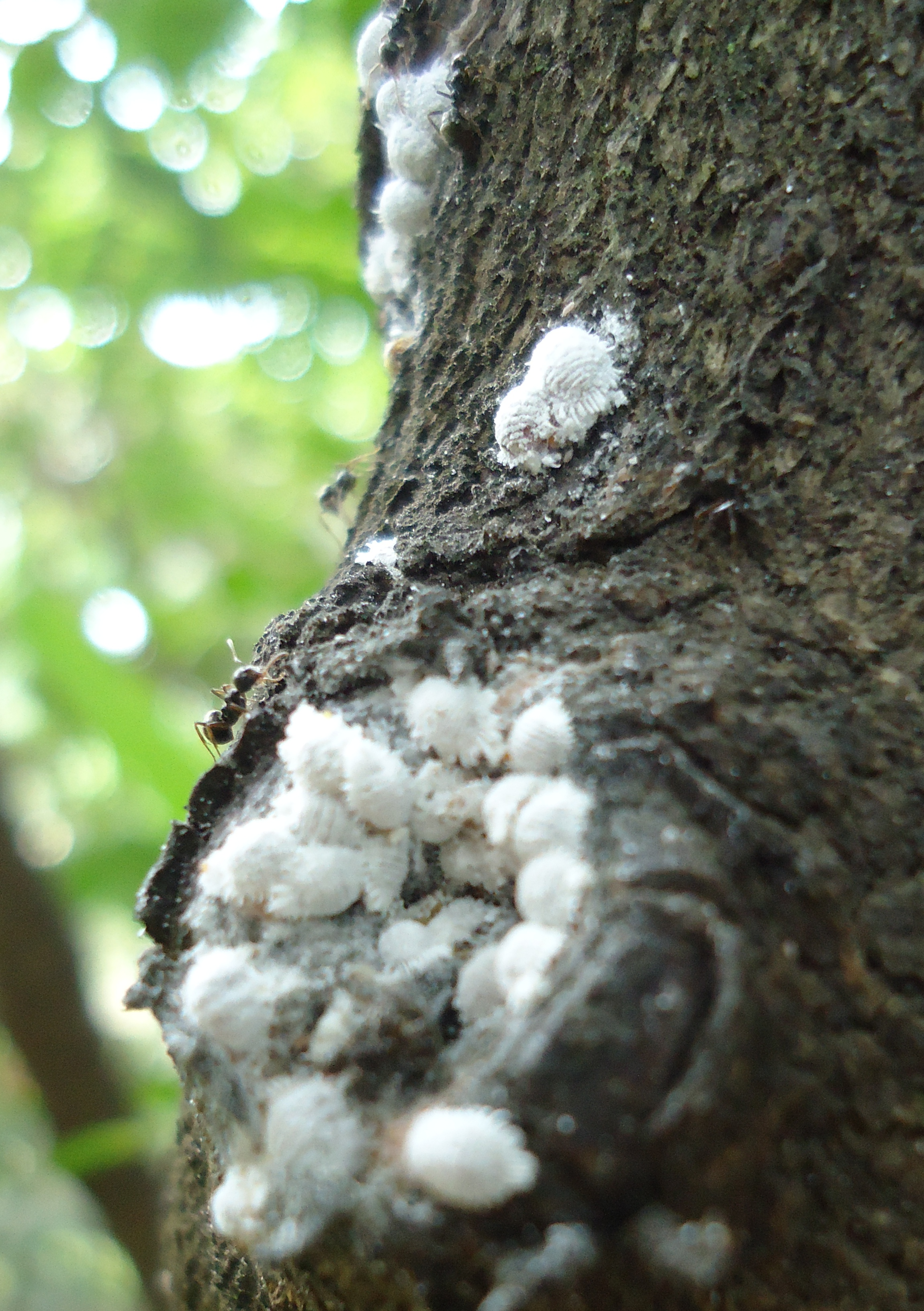 Two Formica fusca guarding a herd of mealy bugs.